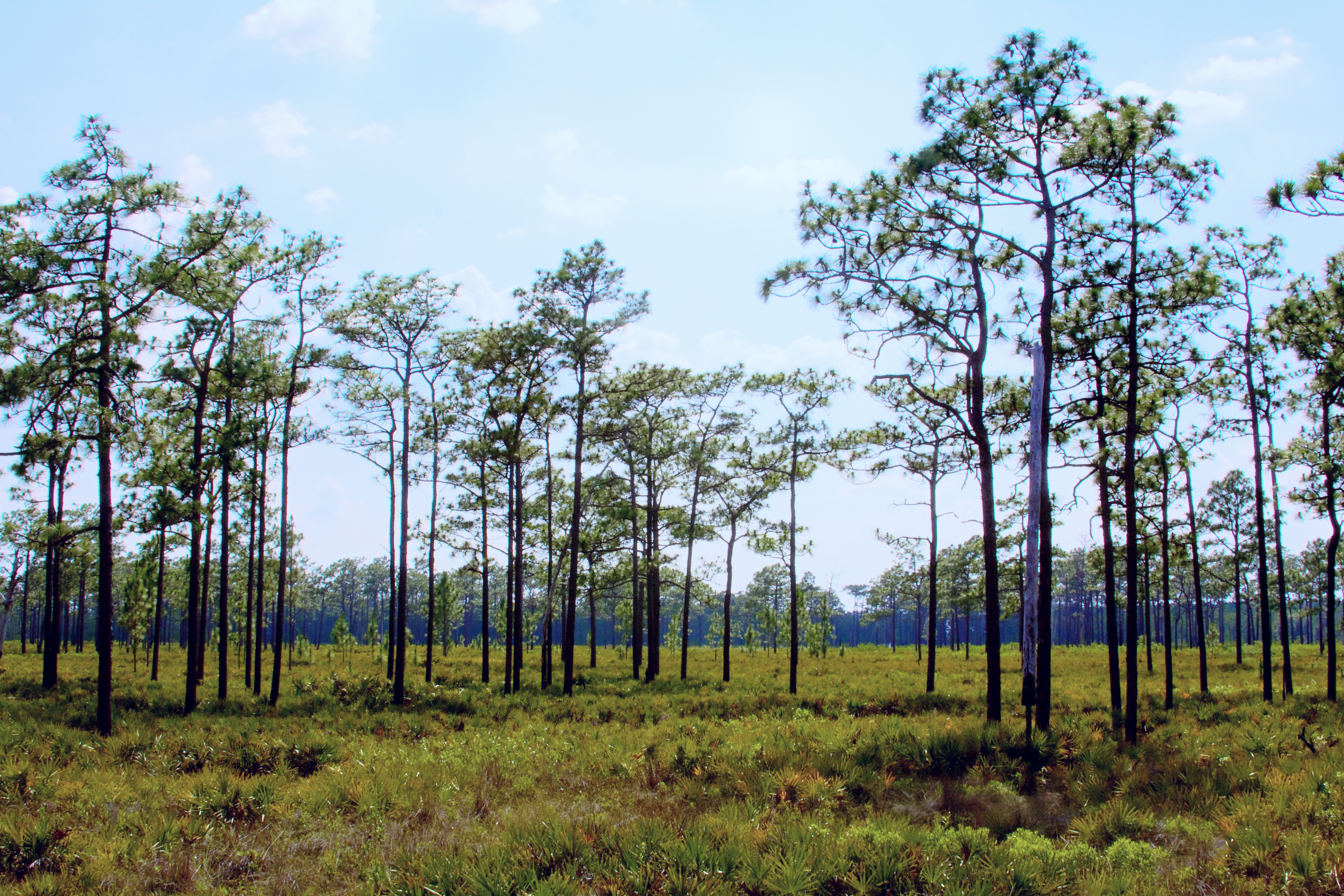 Longleaf Pine Stand at Disney Wilderness Preserve Credit: Keenan Adams, USFWS